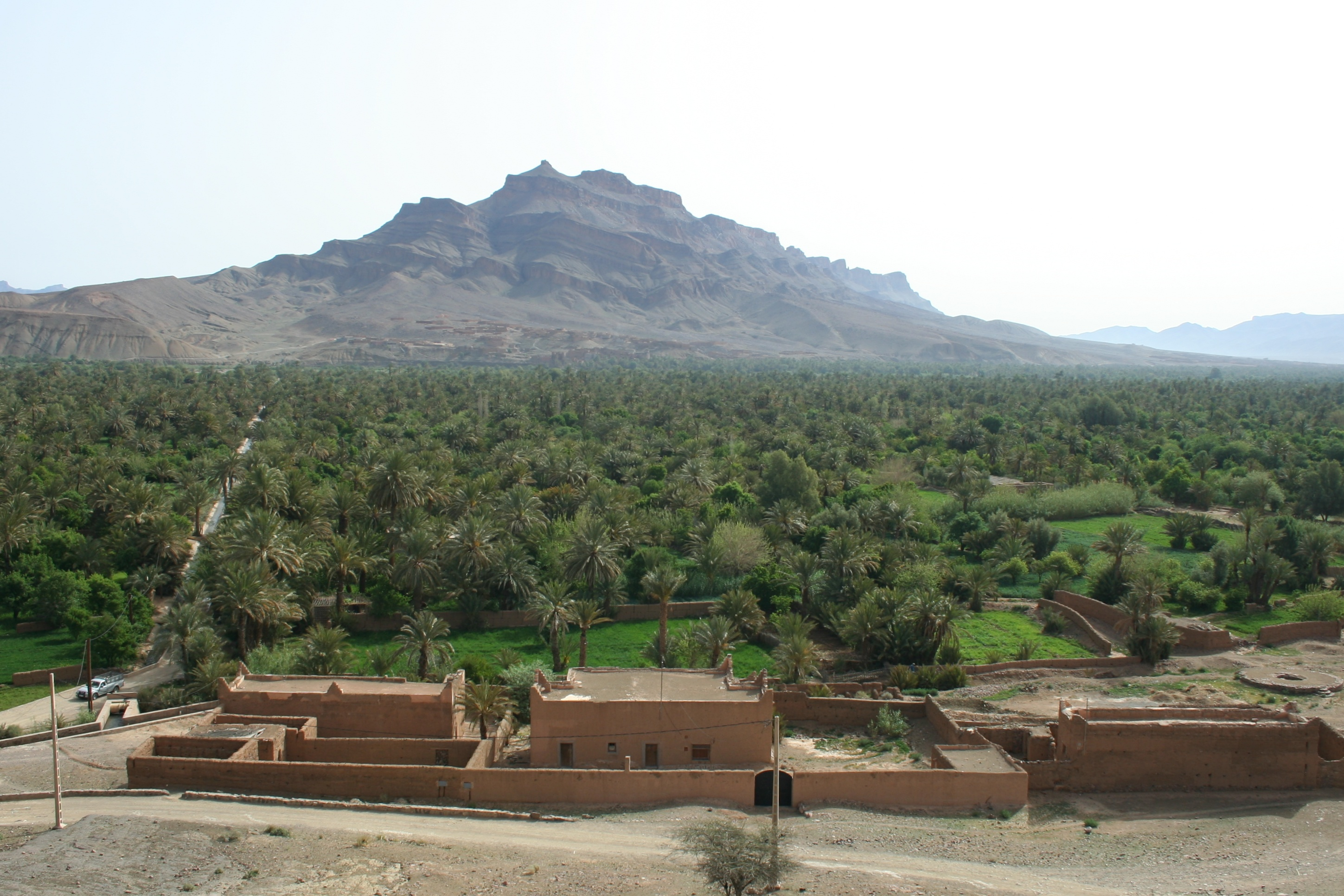 The Draa Valley from Agdz, Morocco